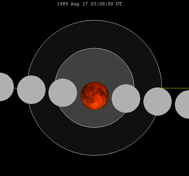 August 1989 lunar eclipse chart of moon's total lunar eclipse path through the earth's shadow. thumb